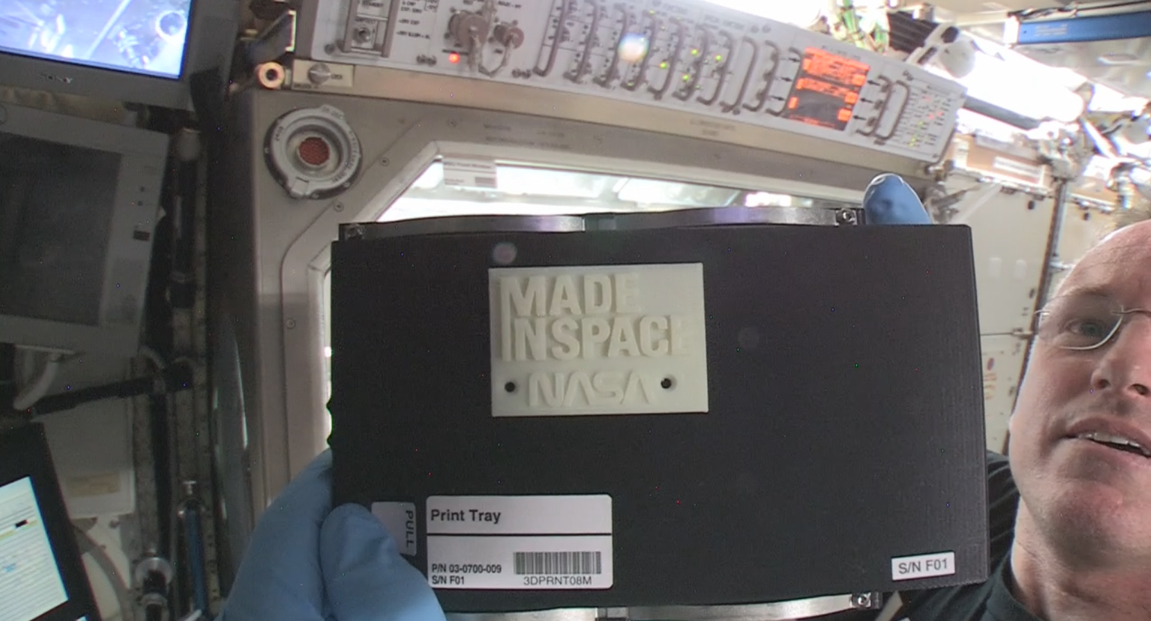 International Space Station Commander Barry “Butch” Wilmore holds up the first object made in space with additive manufacturing or 3-D printing.